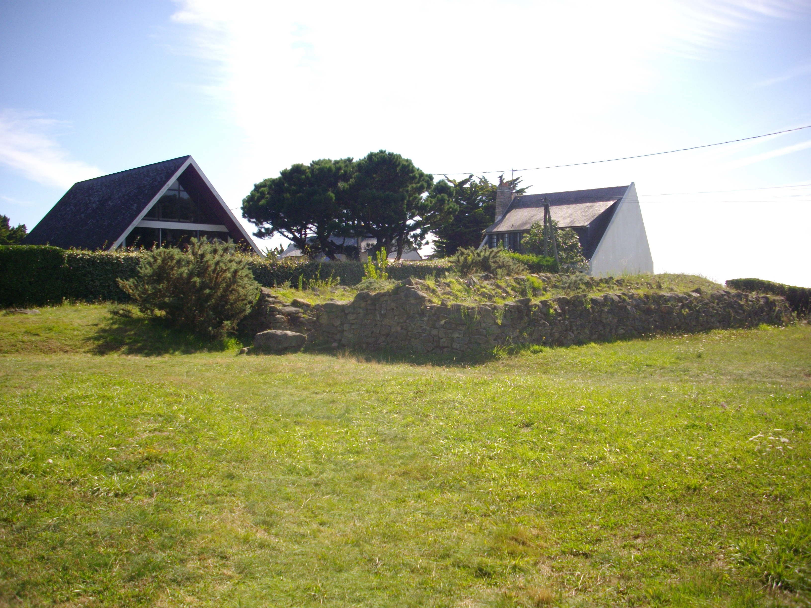 Dolmen of Bilgroix cape in Arzon (Morbihan, France) .